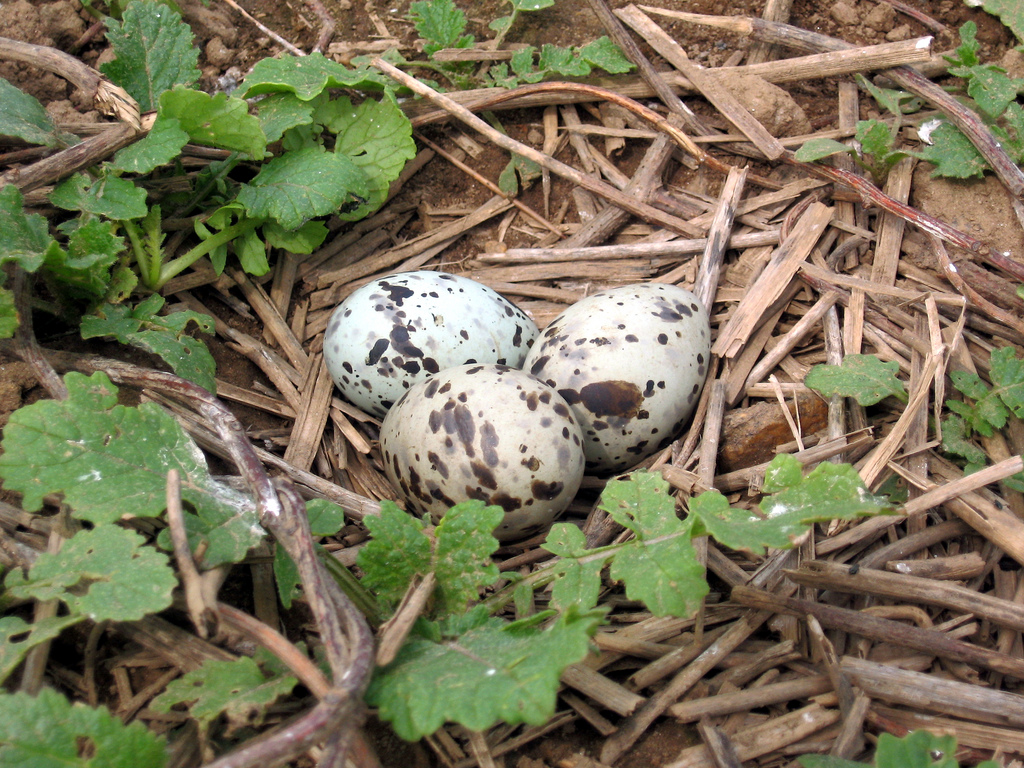 The first thing you hear when you step foot onto the island from those already there isn't "Hello," or "Welcome," or "How was the trip?" It's "Watch the nests!" because the nests are *everywhere*. Anywhere there's no more vegetation than sparse grass, there are nests. On rocks, on dirt, on concrete. Every single step you take on the island must be done with head down, watching your feet. You're here to support this nesting colony, not stomp it to pieces.